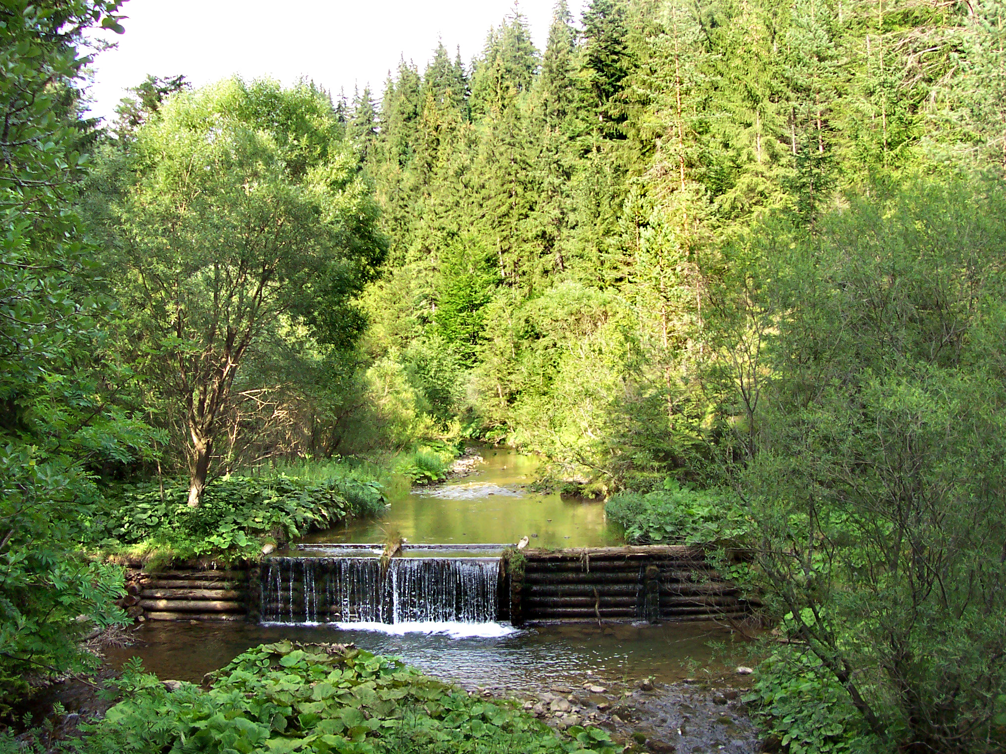 Kvačianská valley. Orava, Slovakia